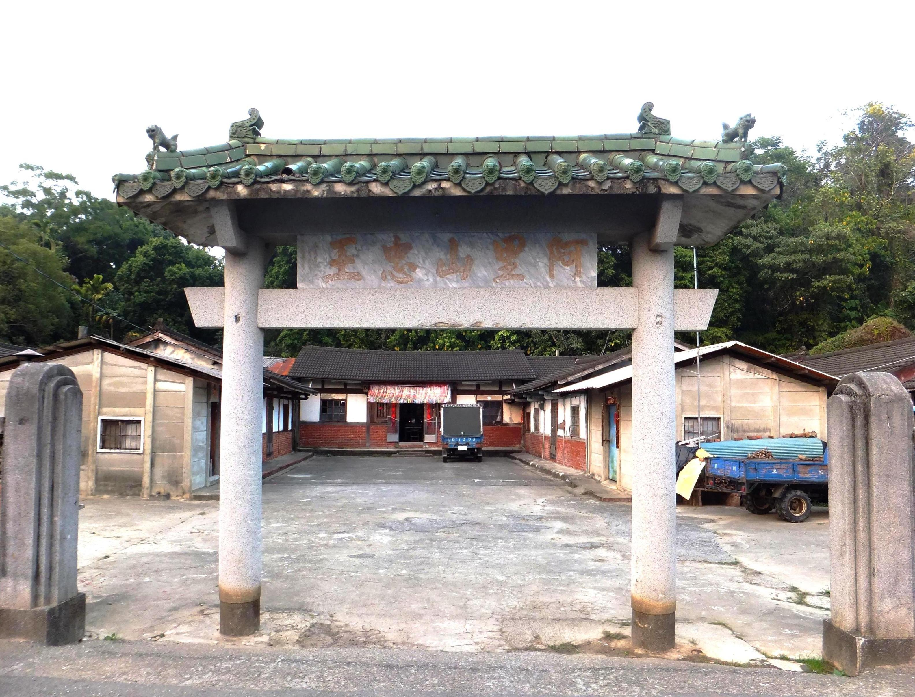 Former Residence of Wufeng中文（台灣）: 嘉義縣竹崎鄉義仁村吳鳳故居